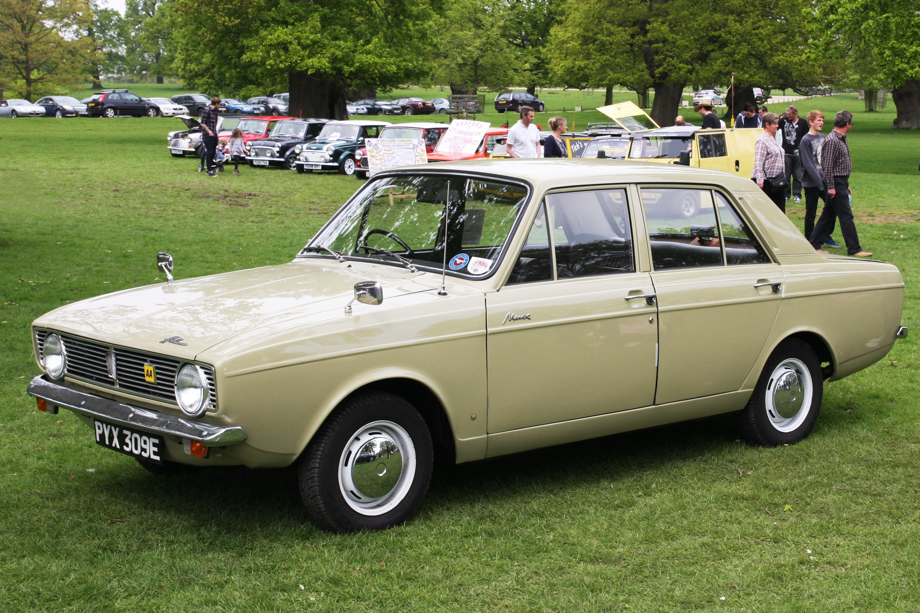 Hillman Minx (1967)